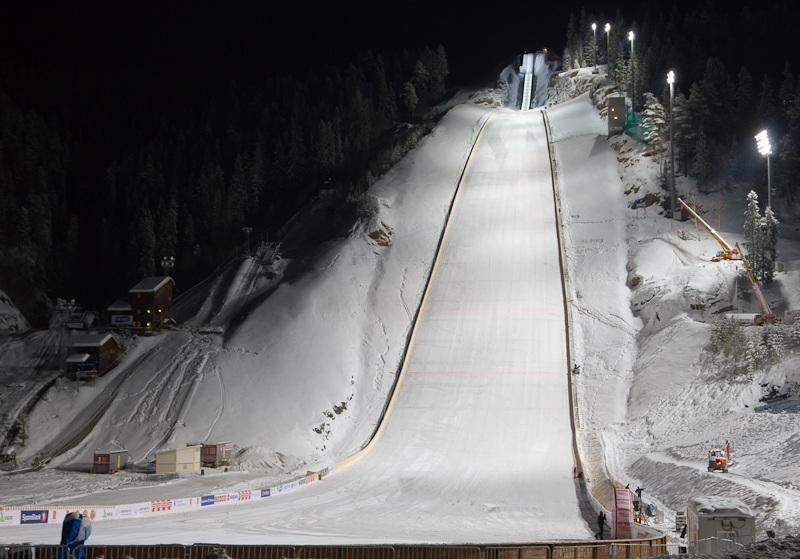 Vikersund HS225, the world's greatest ski flying hill, floodlit during test jumping before the first World Cup event, which was the first competition after the complete rebuilding in 2010-2011